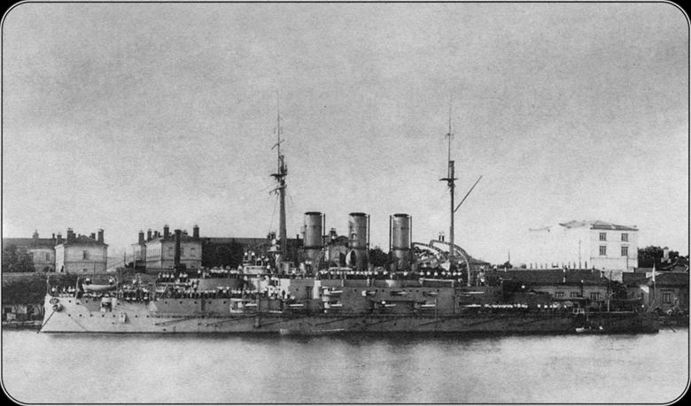 Imperial Russian battleship Panteleimon in Sevastopol, summer 1911.